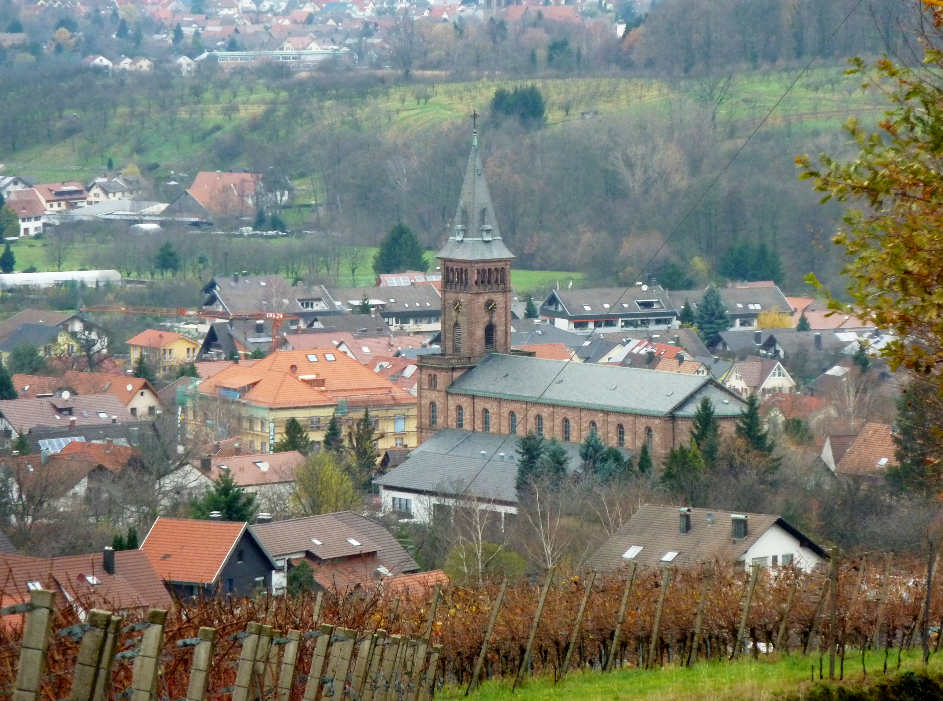 Kath. Kirche St. Leonhard in Lauf, Ortenaukreis, Baden-Württemberg. Erbaut 1882